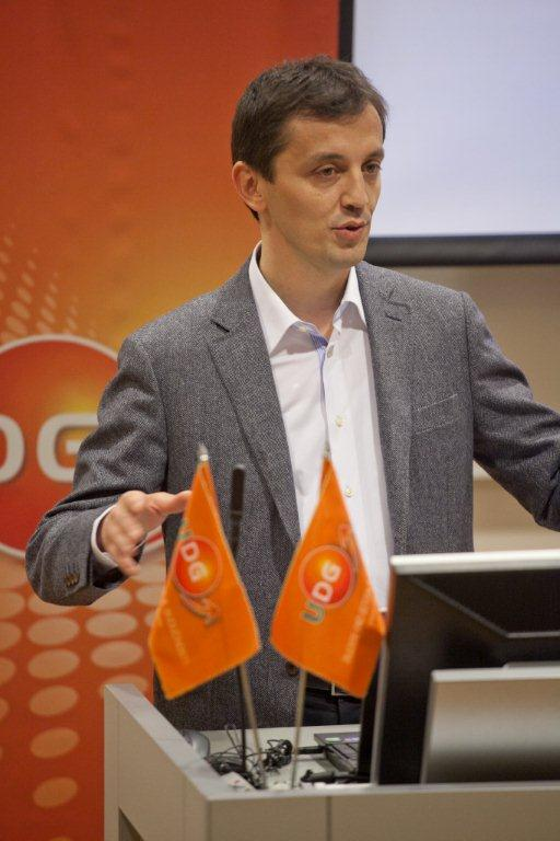 Predrag Boskovic giving the speech at the University of Donja Gorica (March 14, 2012).